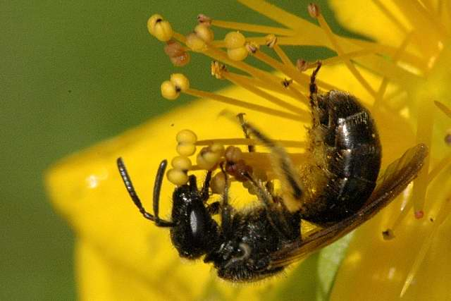 Panurgus calcaratus from Commanster, Belgian High Ardennes .